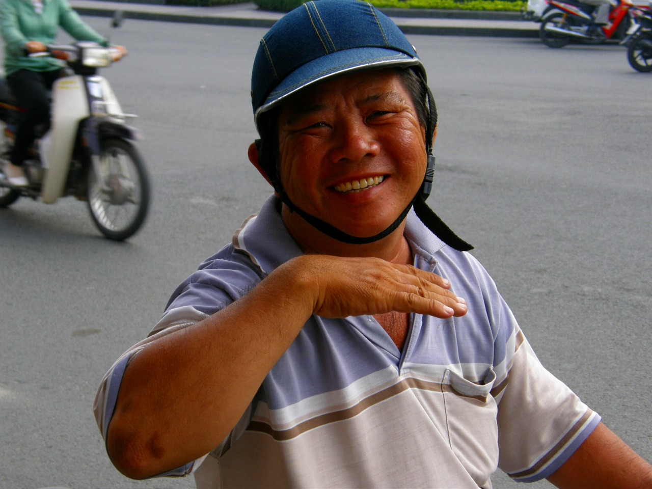 Hồ Chí Minh motorcycle taxi driver. He is posing for Ken Shimura's "Ain".